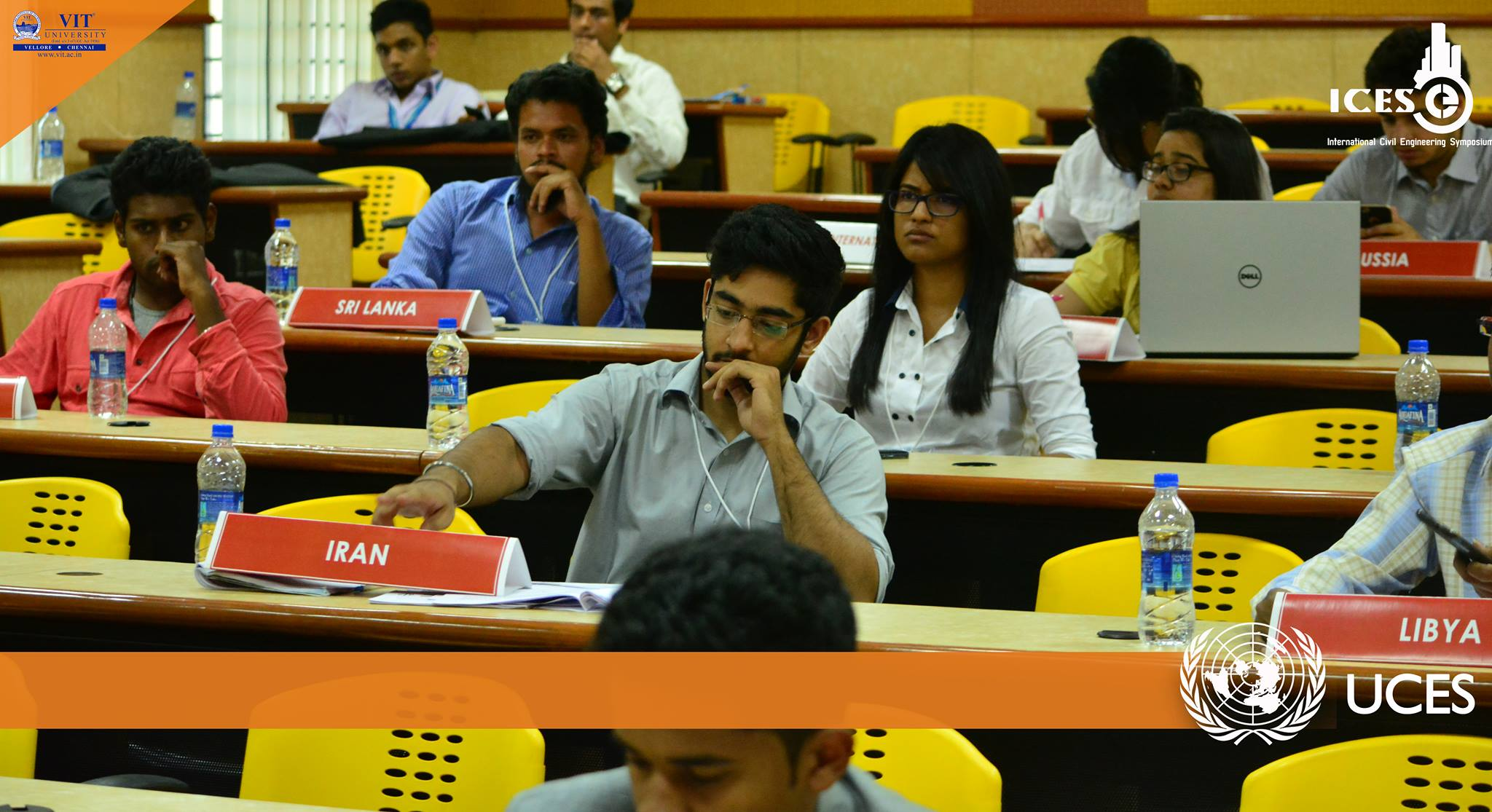 Delegates during United Civil Engineering Summit, ICES'15